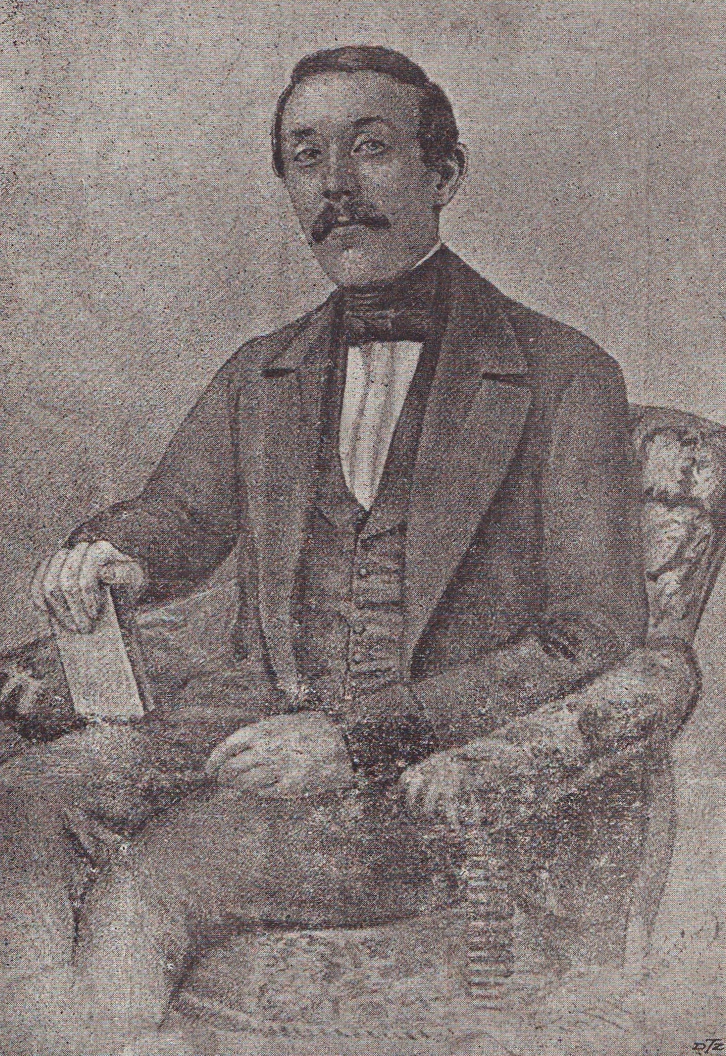 Todor Radičević, father of famous Serbian poet Branko Radičević. Taken from the book O ocu Brankovu - Todoru Radičeviću (1909) by Ljubomir Lotić. Srpski (latinica): Todor Radičević, otac pesnika Branka Radičevića. Preuzeto iz knjige O ocu Brankovu - Todoru Radičeviću (1909) Ljubomira Lotića.